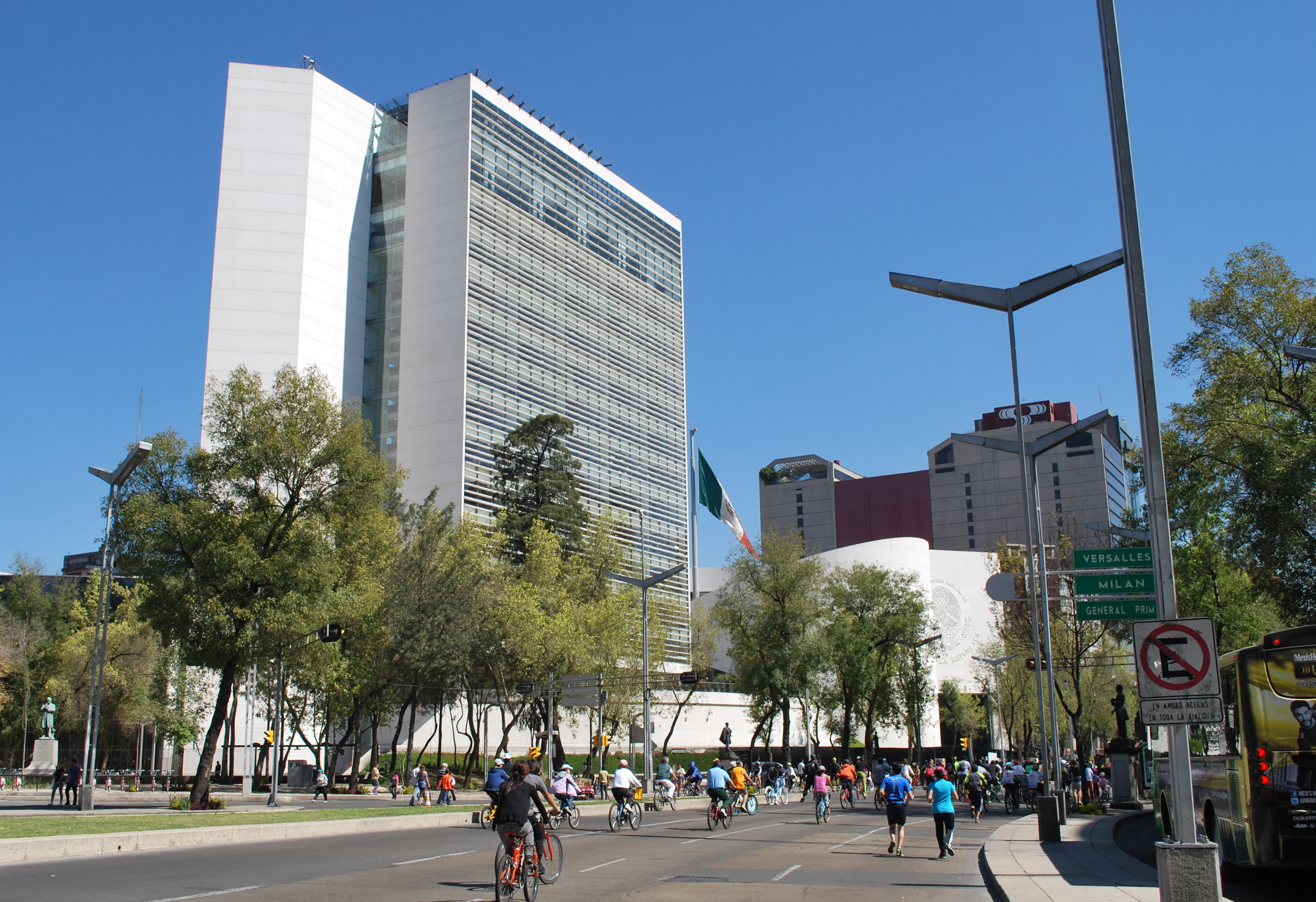 New Senate building on Paseo de la Reforma and Insurgentes in Mexico City